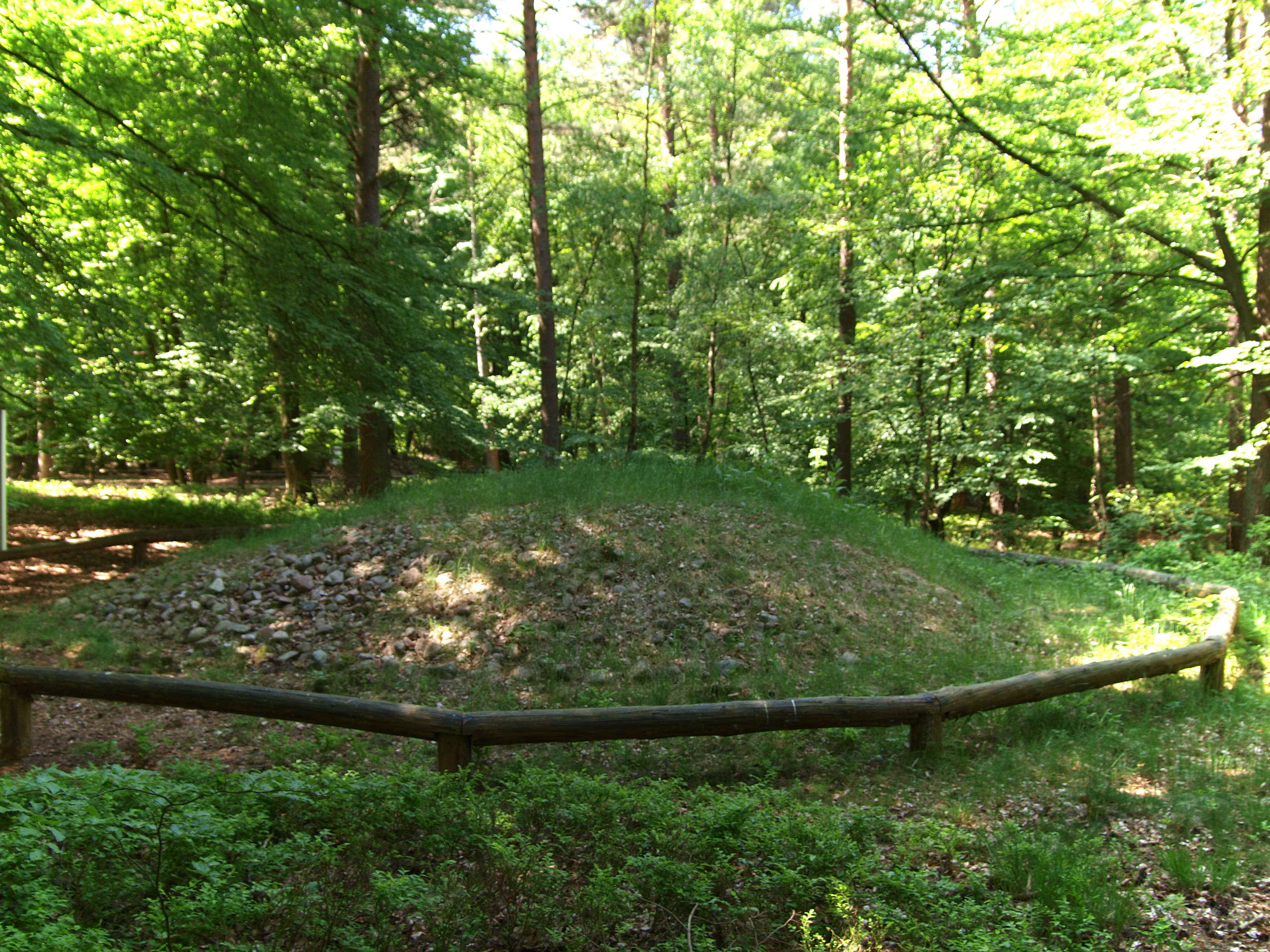 Archaeologic scenic route at Fischbeker Heide, station 8. Reconstructed double-tumulus of the Neolithics and Bronze Age. Reconstruction by Archaeological useum Hamburg | Helms-Museum, Hamburg-Harburg, Germany.